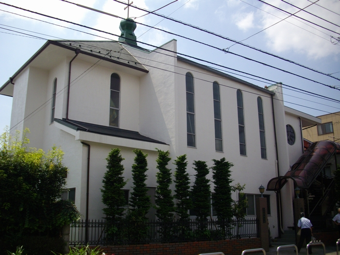 Orthodox Church in Ogikubo, Tokyo, dedicated to Nativity of Christ, belonging to Orthodox Church in Japan.